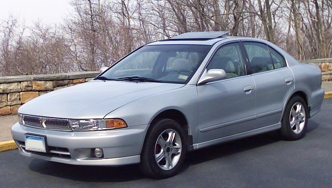 1999 Mitsubishi Galant ES Owner: Jagvar Photographer: Jagvar